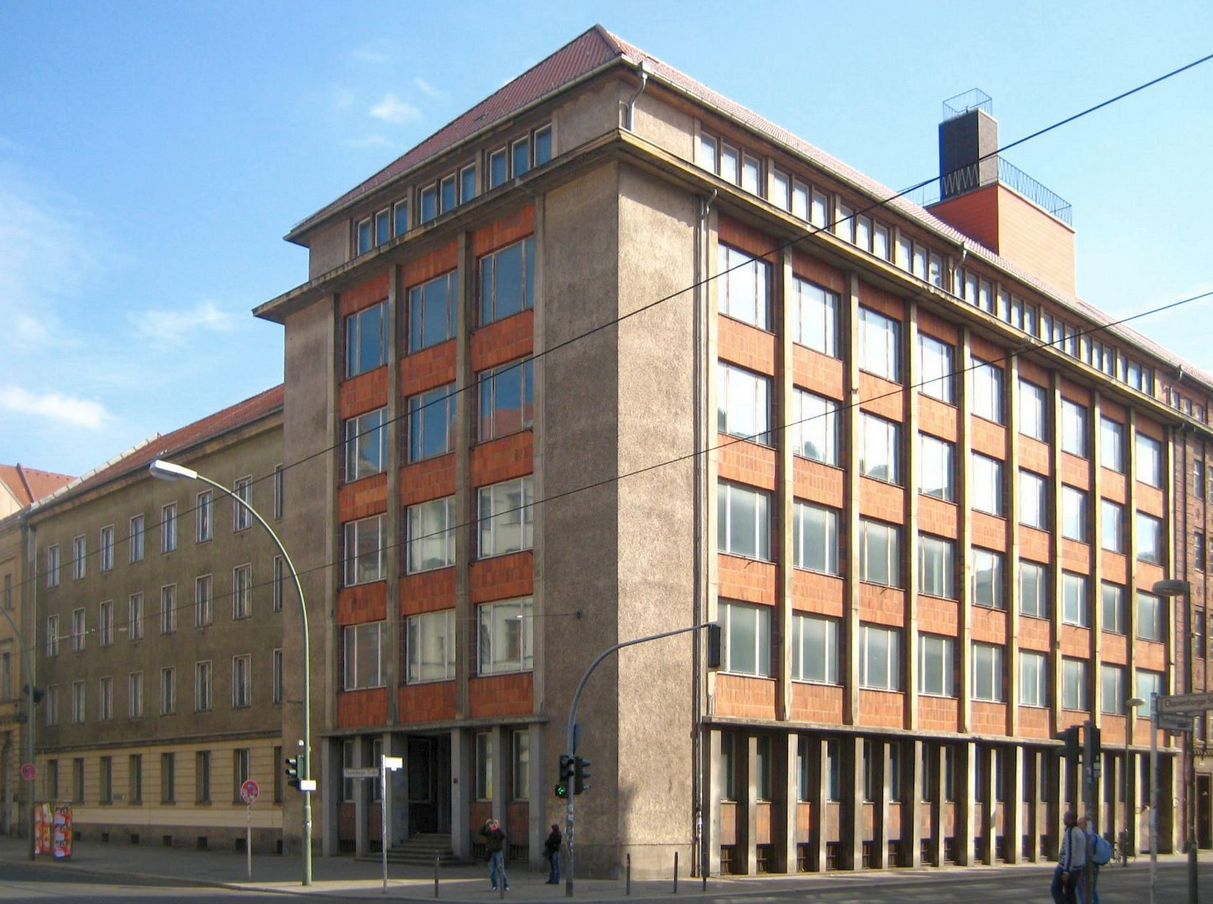 The former Institute for Post and Telecommunications of the GDR at Oranienburger Straße No. 70, corner of Tucholskystraße (right), in Berlin-Mitte. The house was built from 1958 to 1963. It is part of the protected historic buildings area Spandauer Vorstadt.